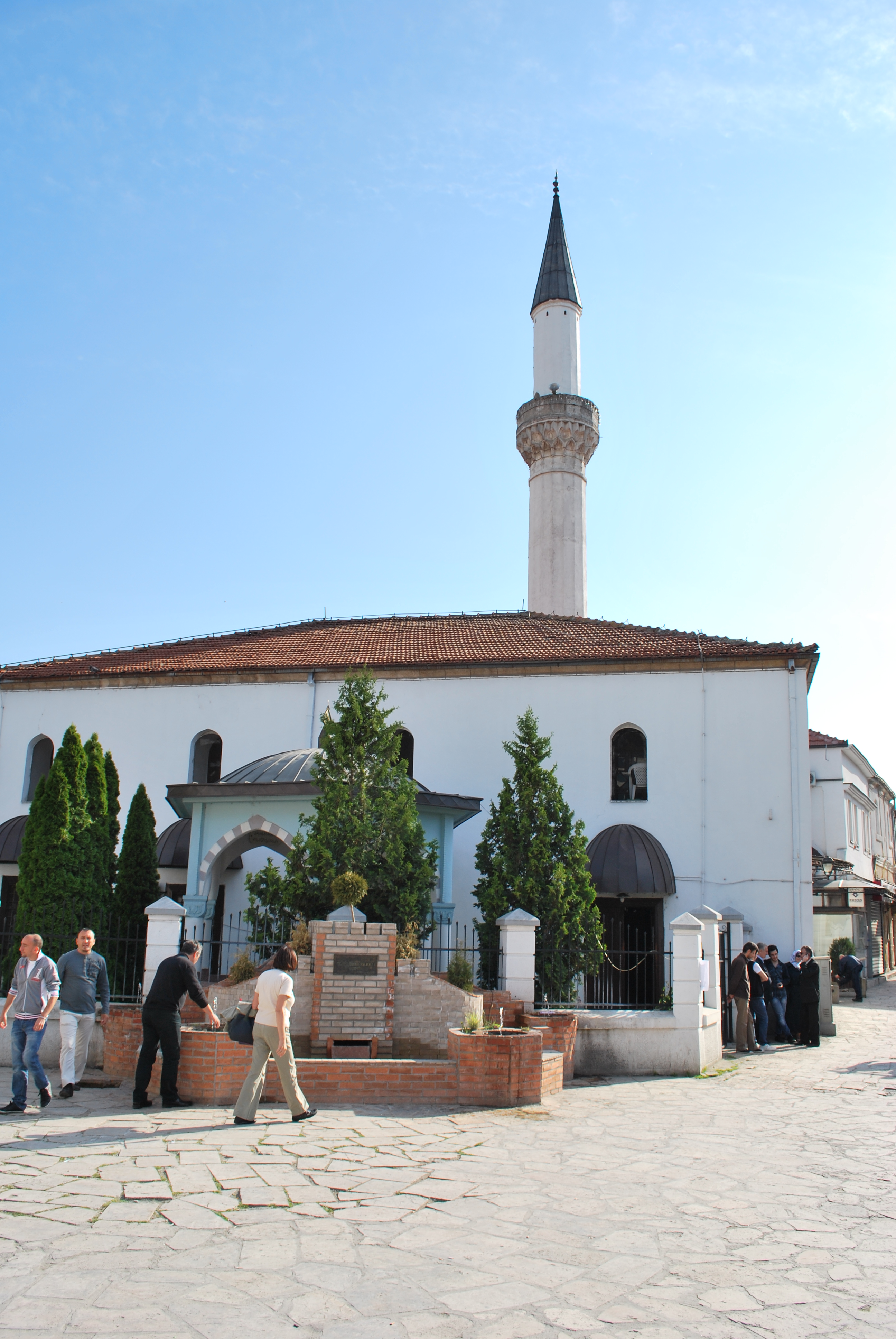 Skopje, capital and largest city of Macedonia